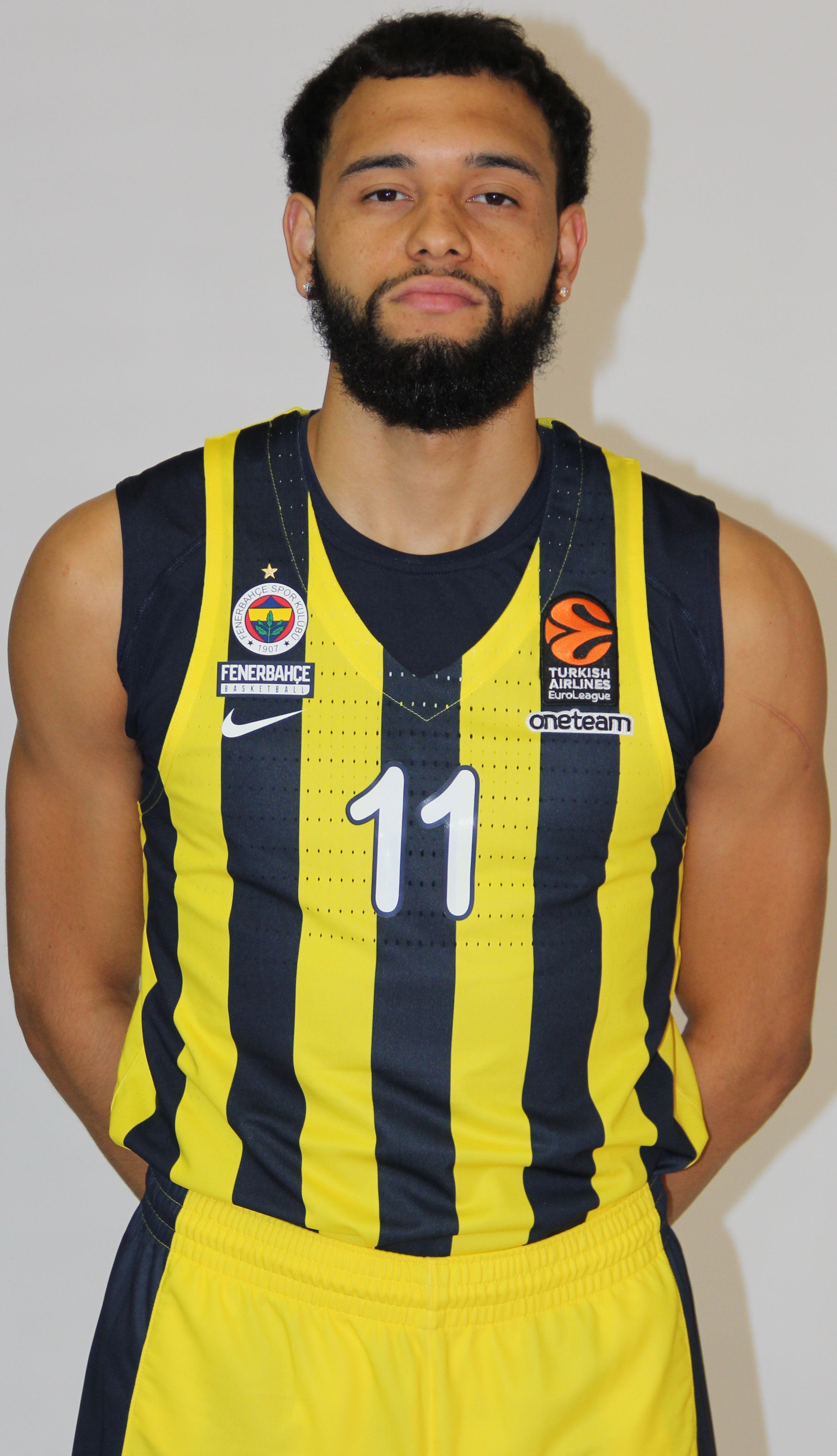 Tyler Ennis Fenerbahçe Basketball Media Day 20180925